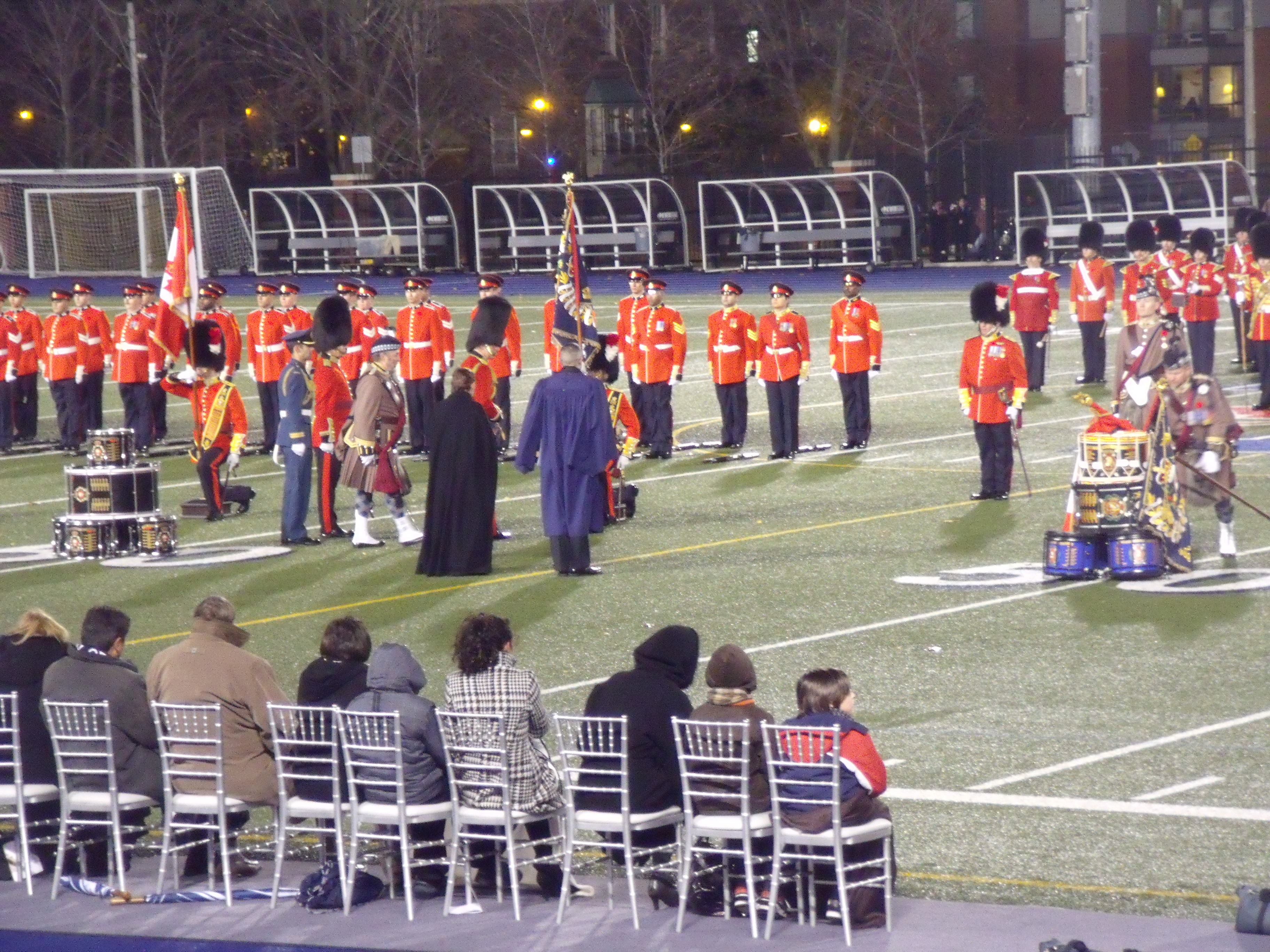 The new regimental colour is presented to the Royal Regiment of Canada by the Prince of Wales